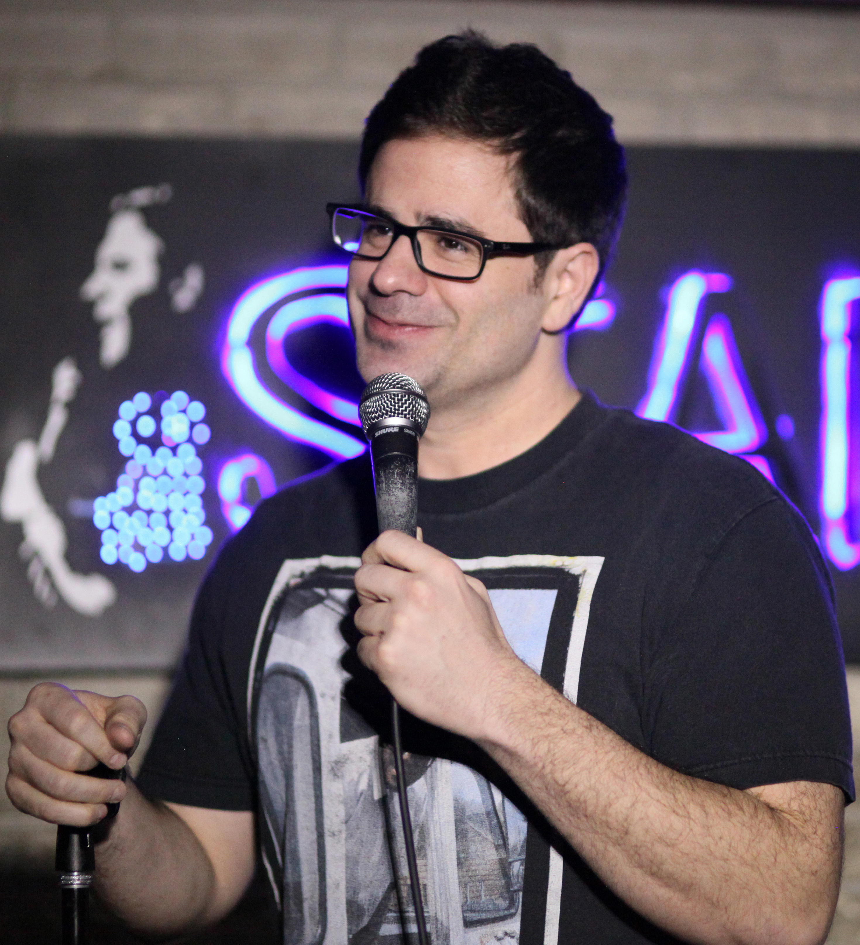 Yannis Pappas performing at The Stand in March 2017.